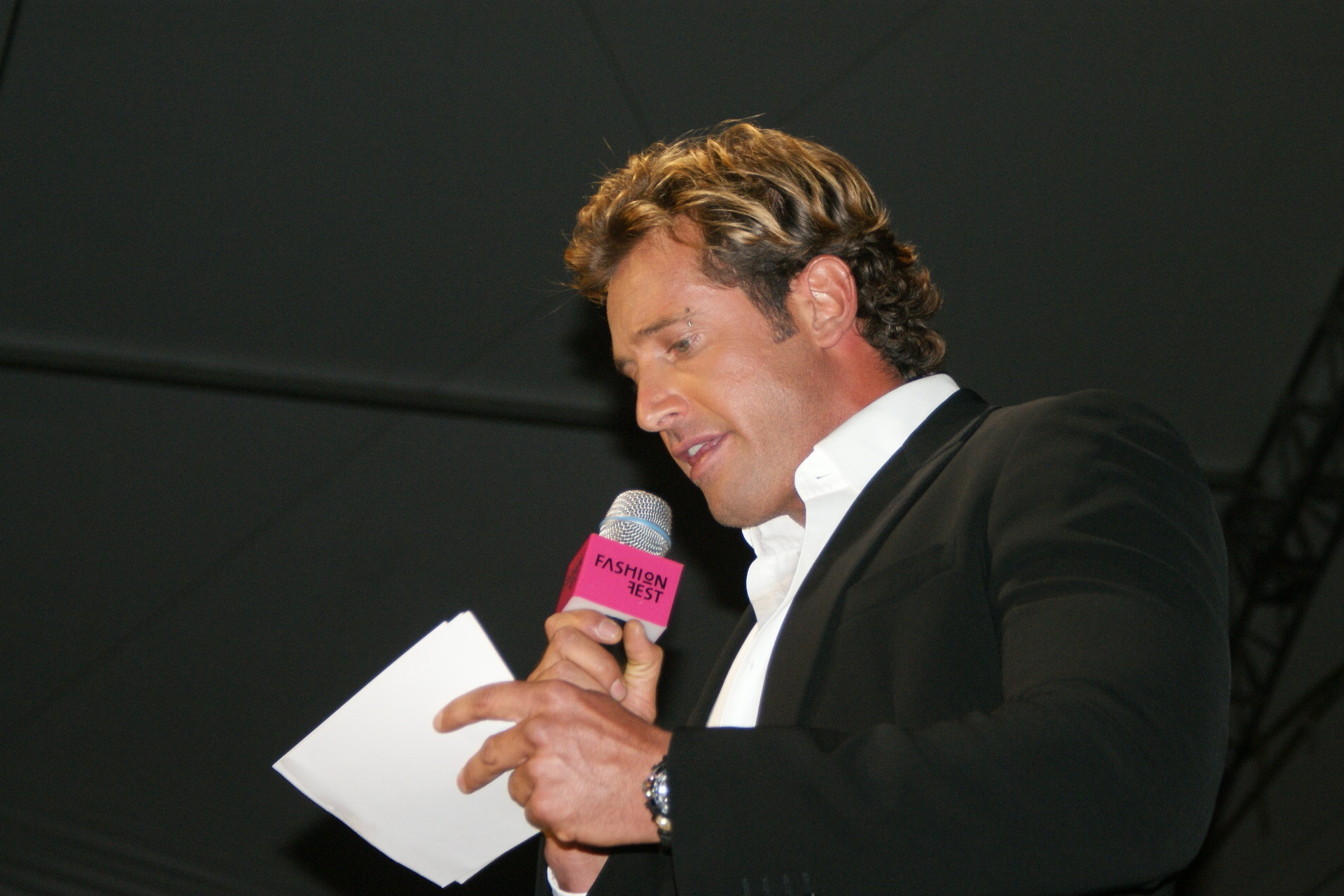 Gabriel Soto at Fashion Fest in 2008.